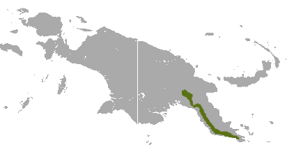 Macleay's Dorcopsis (Dorcopsulus macleayi) range